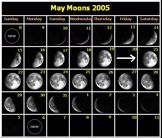 Example calendar showing lunar phases. This sequence shows the moon each day from an assumed latitude of 45 north, and pictures taken approximately 25 minutes later every day. (The 25 minute shift was picked to duplicate observable periods, from a waxing crescent at sunset to full moon around midnight to a waning crescent at sunrise.) Technical Software: "Full Sky Observatory", by Tom Ruen thumb|Full Sky logo Source book: "Astronomical Formulae for Calculators, 4th edition", Jean Meeus, 1988, published by "Willmann-Bell, Inc" Chapter 30 "Position of the Moon" Source bitmap for projection from NASA's Clementine Spacecraft: USGS: Global simple cylindrical projection at 10 km/pixel.